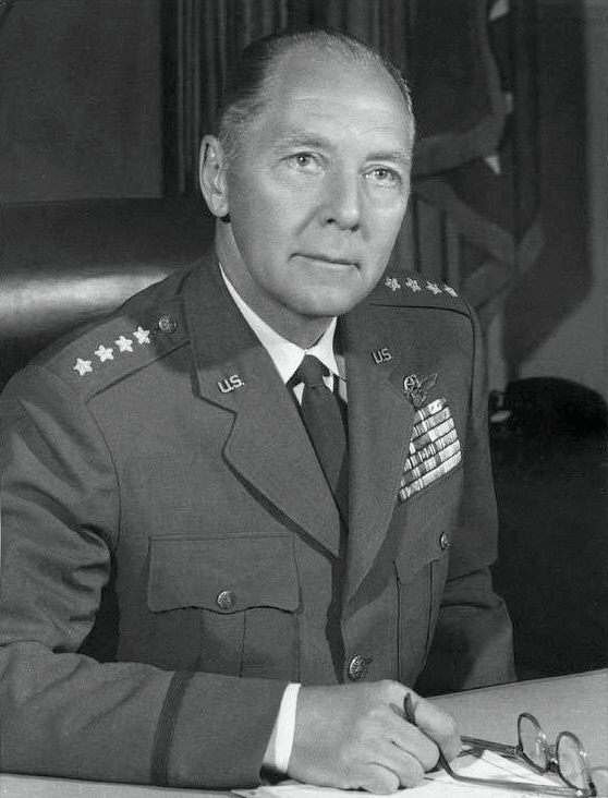 General Jacob E. Smart, USAF